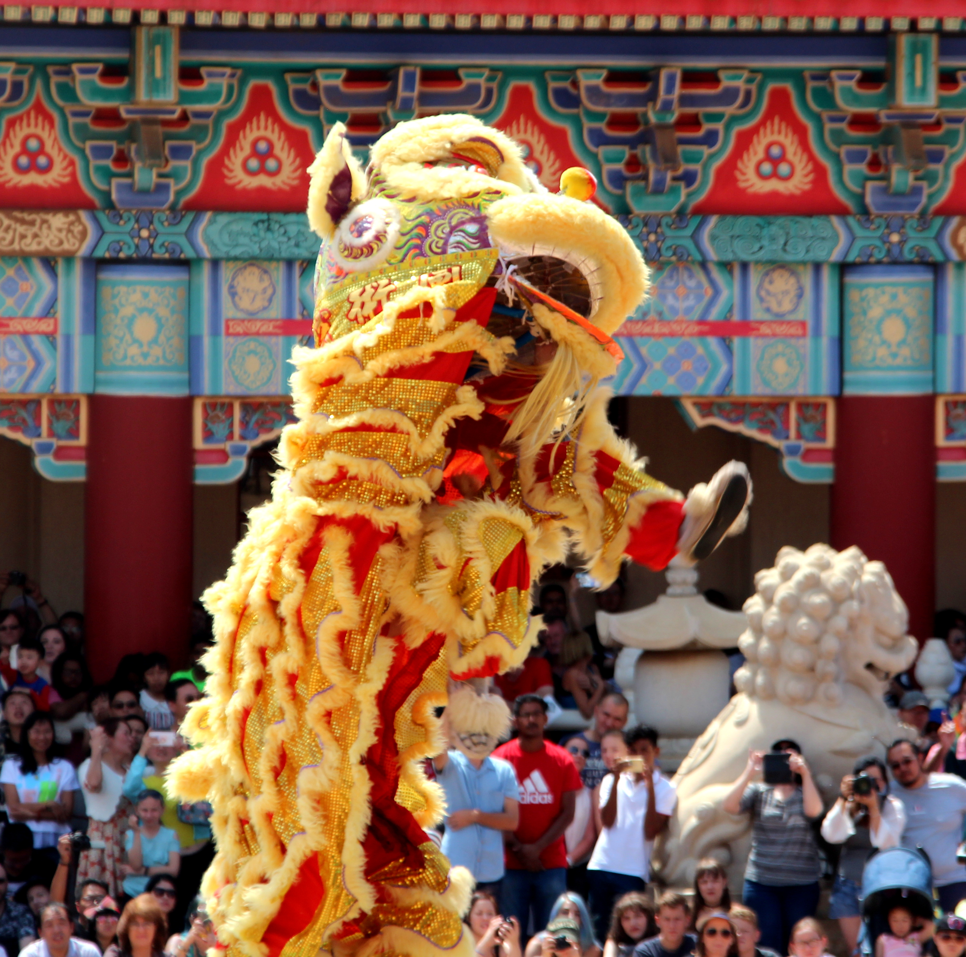 Lion dance at Nan Hua Temple in Bronkhorstspruit, South Africa. Chinese new year celebration on 10 February 2019.